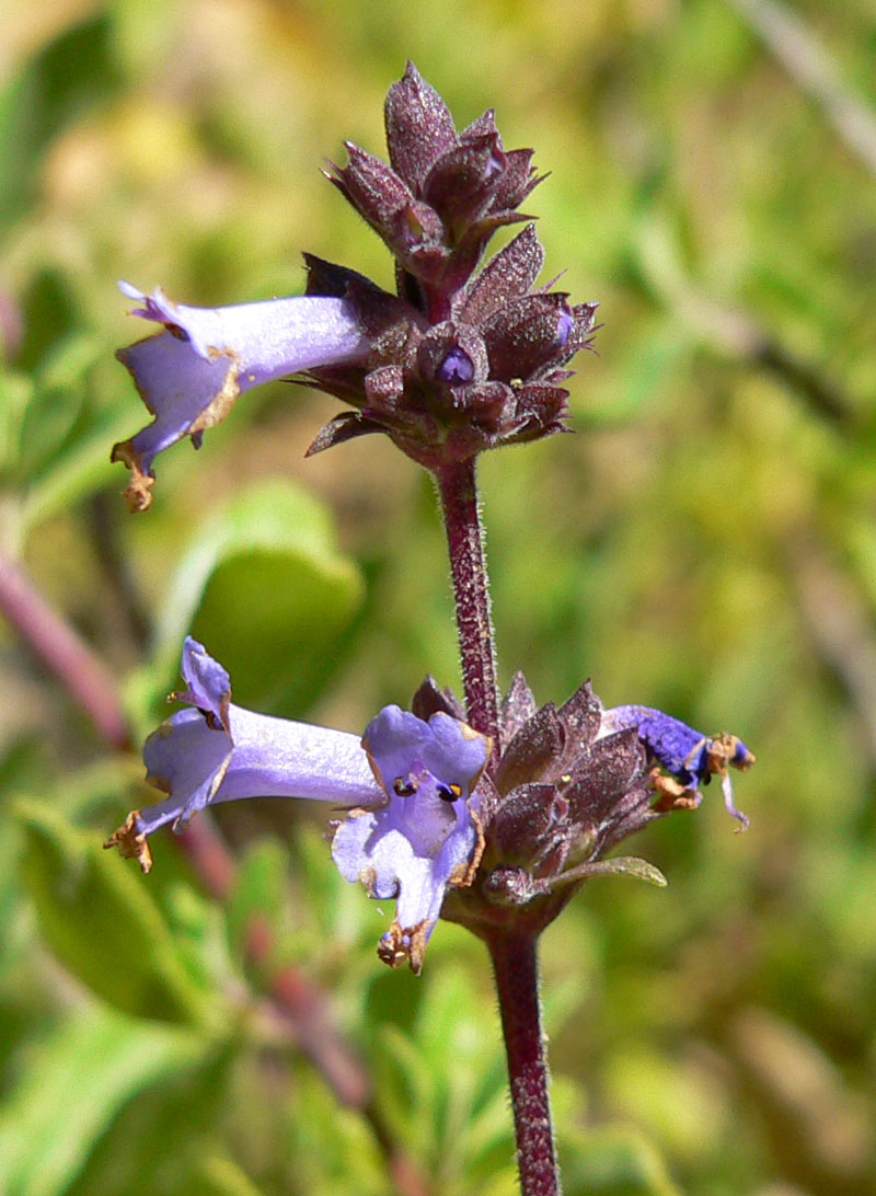 Salvia munzii at the University of California Botanical Garden, Berkeley, California